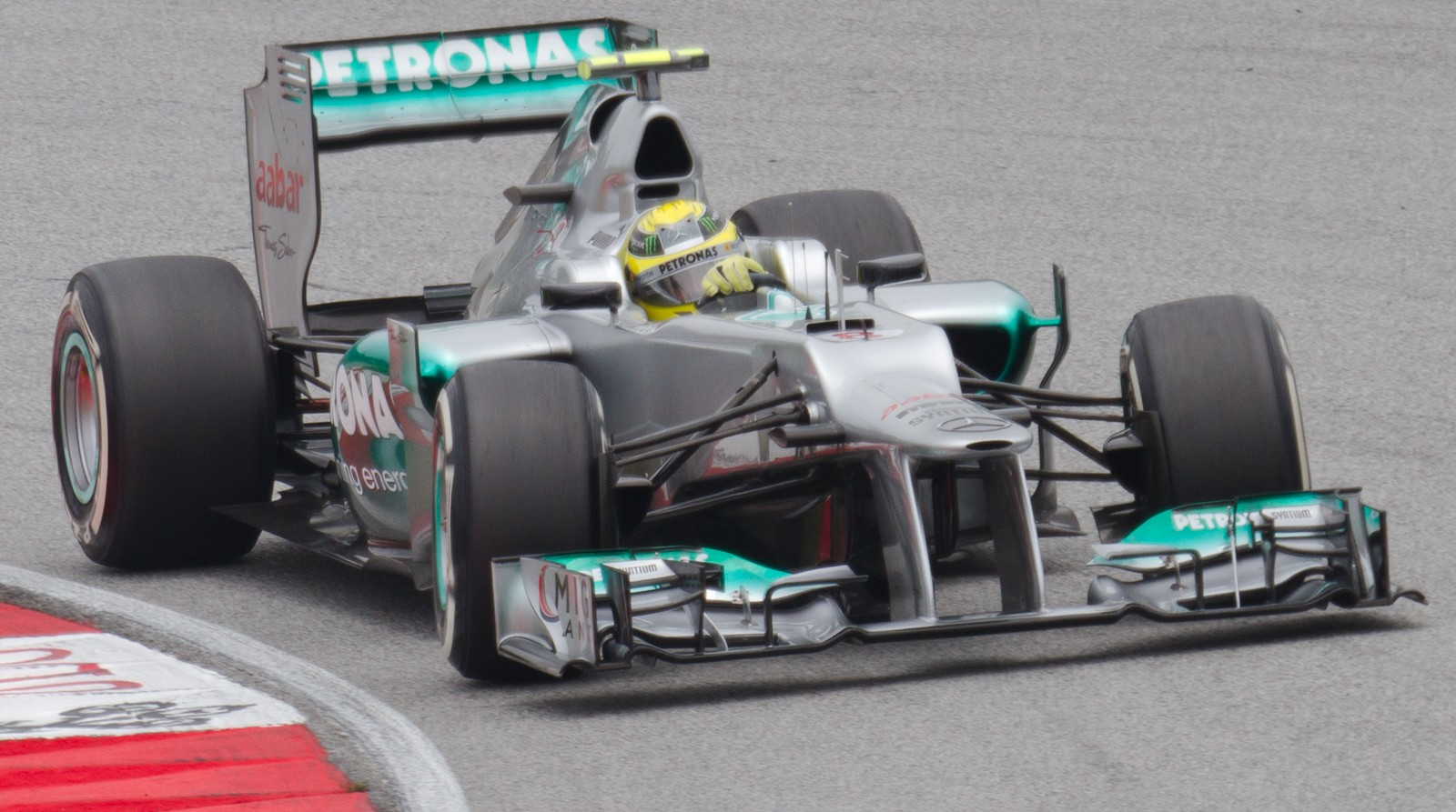 Formula One 2012 Rd.2 Malaysian GP: Nico Rosberg (Mercedes) during the third practice session on Saturday.